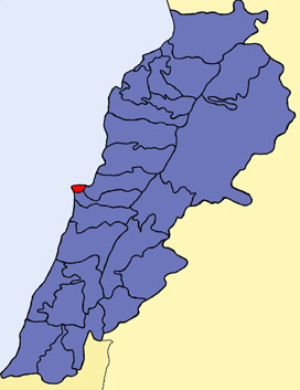 map of the Governorate of Beirut